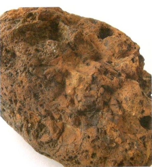 Goethite mineral ore from Alshar deposit in Macedonia